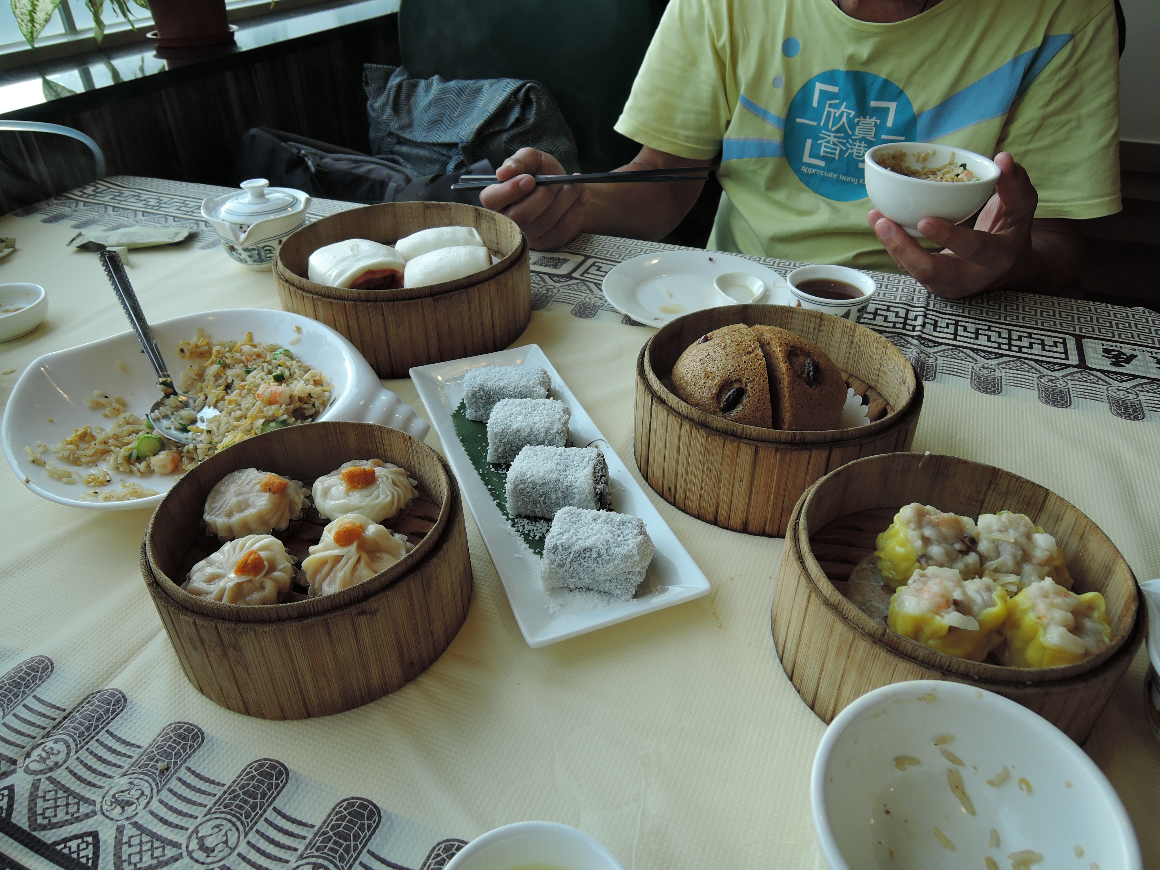 Dinner and Dim sum collection in Cantonese restaurant